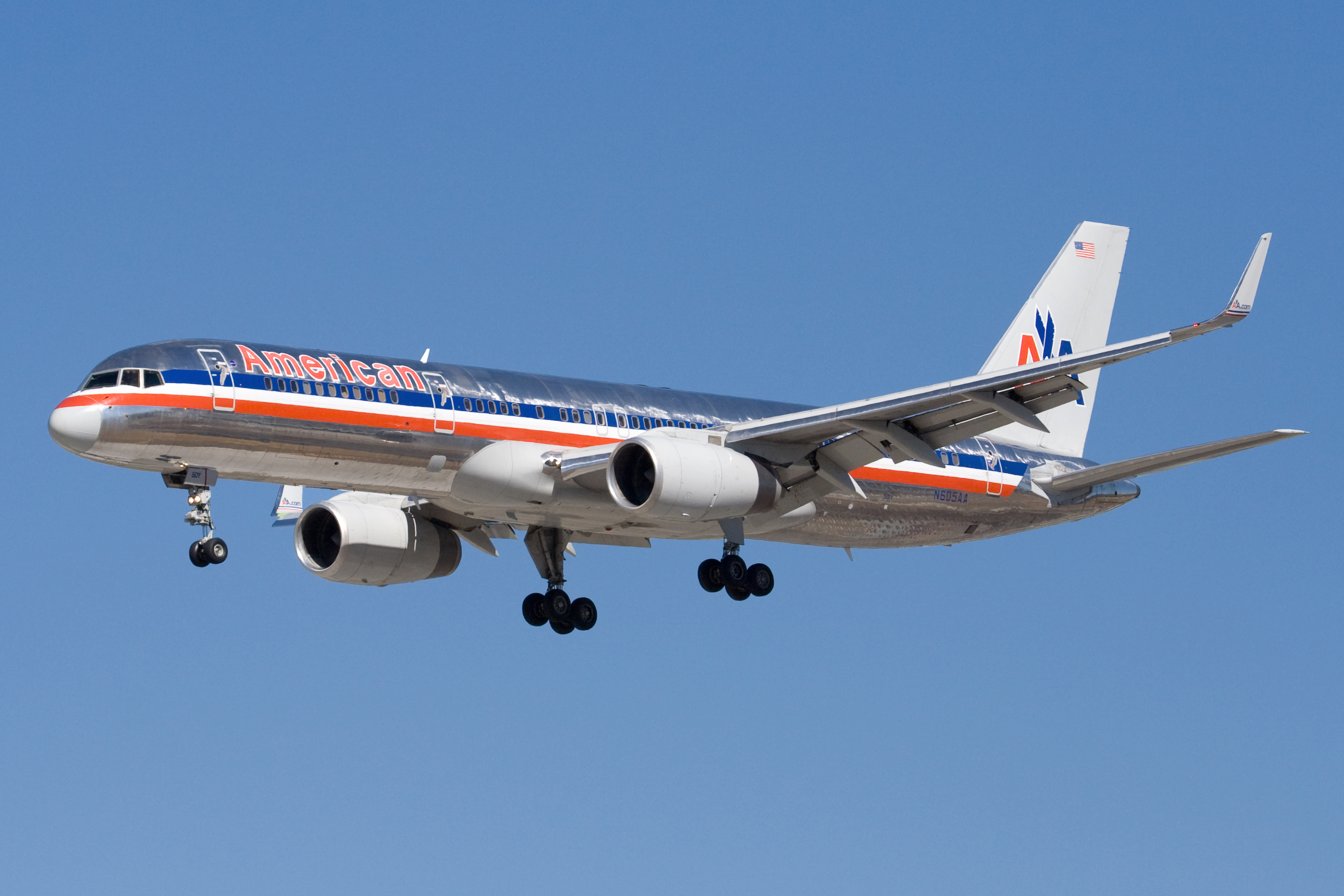 This photograph can also be seen on